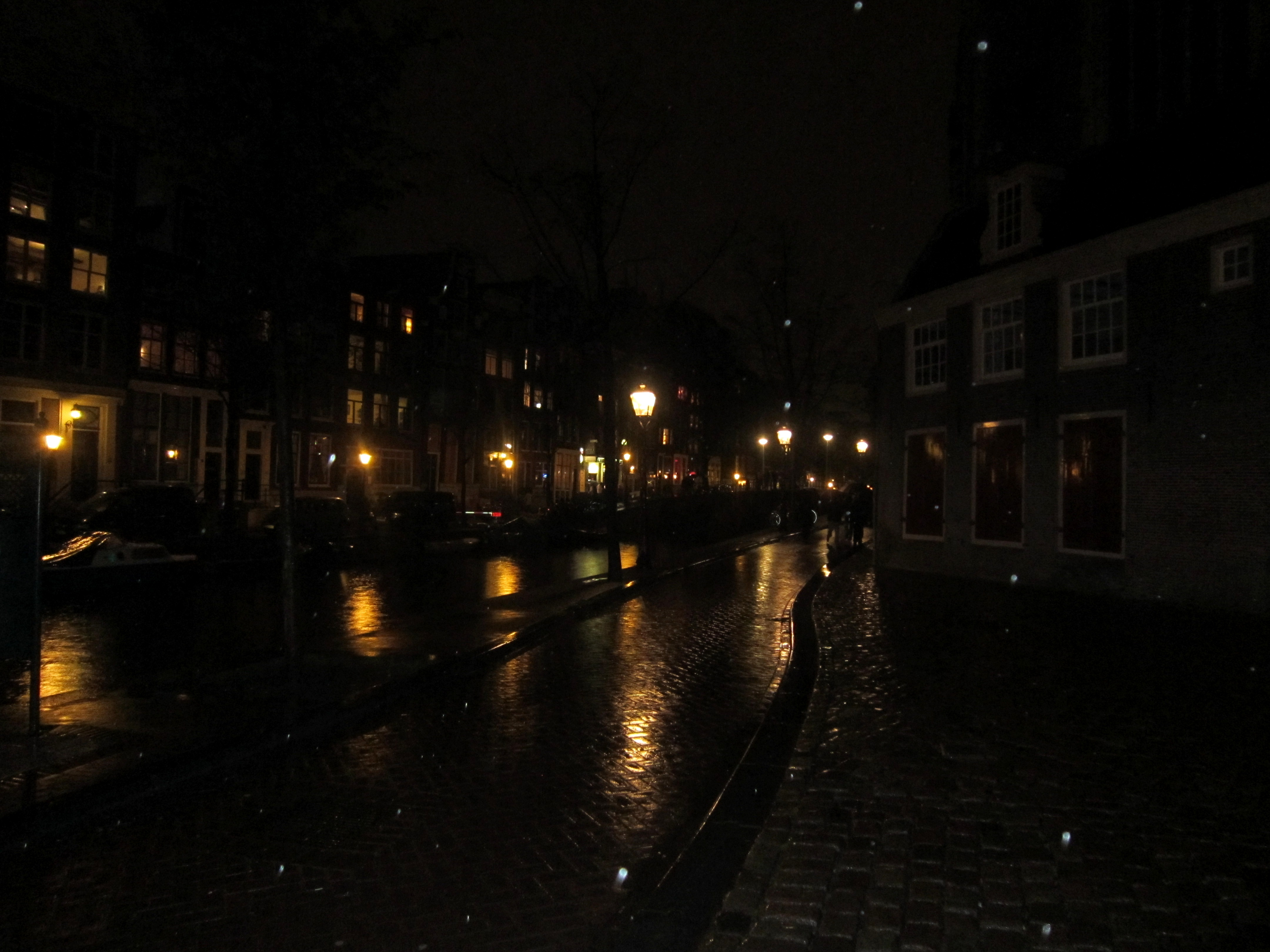 The Red Light District of Amsterdam (De Wallen) at 10 PM.